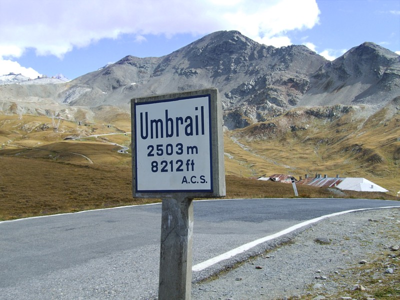 The Umbrailpas Picture taken by user Idéfix , august 24, 2006